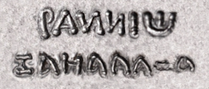 RANNIO MAHAPATA on Nahapana coinage